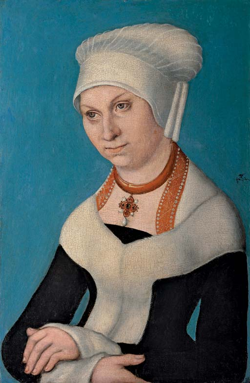 wife of George the Bearded